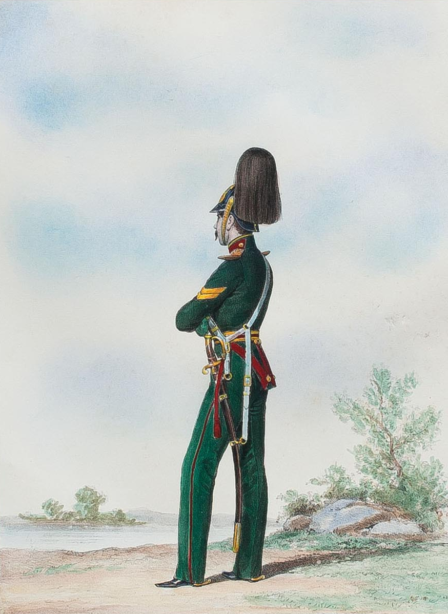 Private Dragoon of His Imperial Highness the crown Prince of the regiment. 1848-1855.